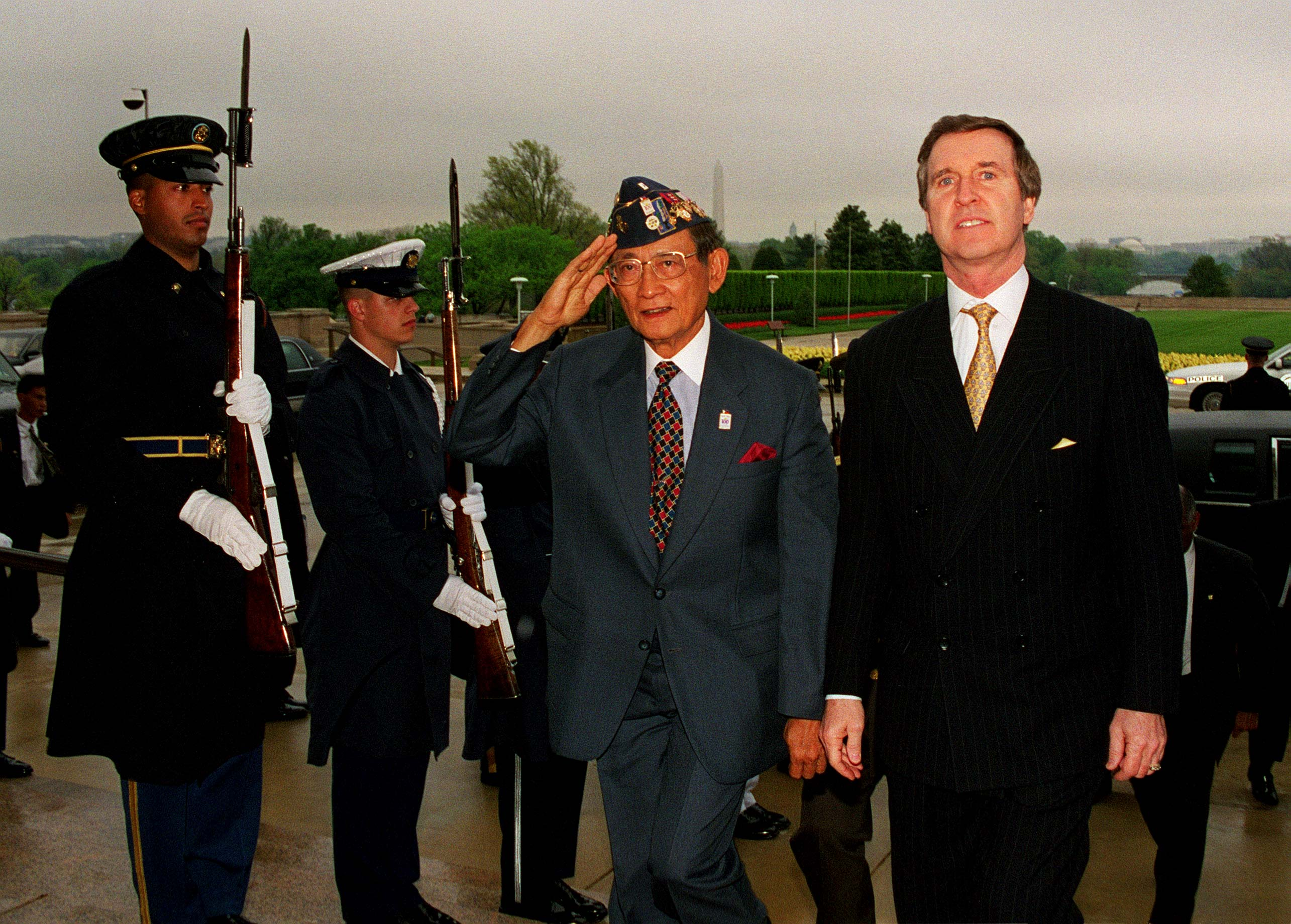 Secretary of Defense William S. Cohen (right) escorts President Fidel V. Ramos (left), of the Republic of the Philippines, through a cordon of honor guards into the Pentagon on April 9, 1998. Ramos will meet with Cohen and other Department of Defense officials including Gen. Henry H. Shelton, U.S. Army, chairman of the Joint Chiefs of Staff, to discuss bilateral relationships, Asia-Pacific security issues and regional developments. DoD photo by R. D. Ward.